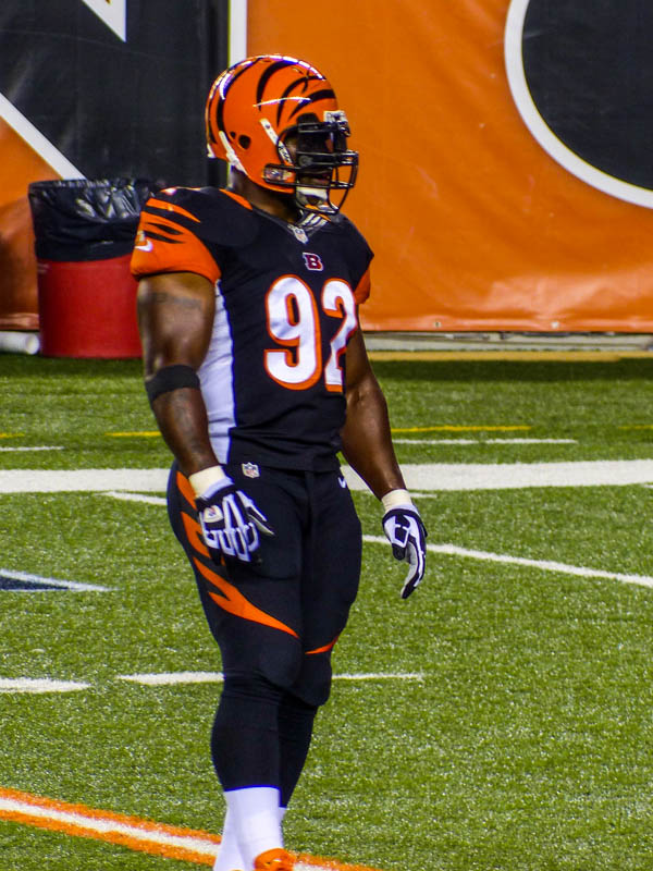 Warming up before Monday Night Football game vs the Pittsburgh Steelers, September 17, 2013